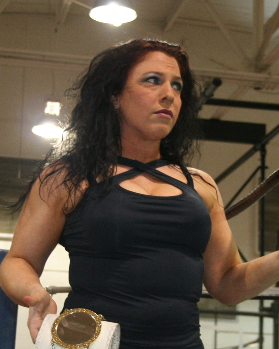 Kacee Carlisle at a Queens of Combat show in April 2014. Cropped from original.